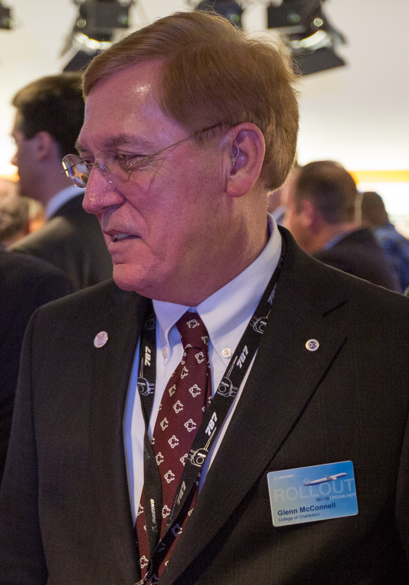 On February 17, 2017, Boeing South Carolina in North Charleston, SC rolled out the first 787-10. US President Donald Trump (POTUS) was in attendance at the ceremony. The 787-10 will be built exclusively in North Charleston, SC. Photo by Ryan Johnson